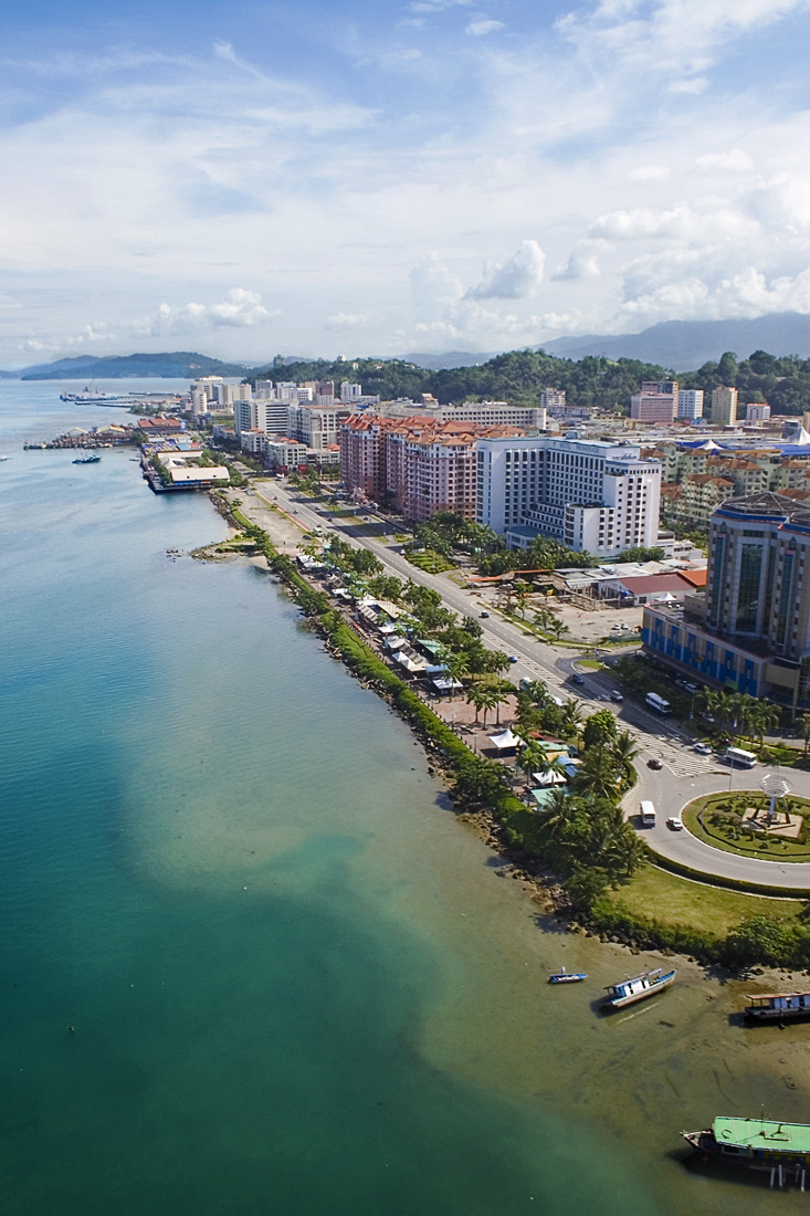 Photos of Kota Kinabalu City in Sabah, East Malaysia in November 2008.